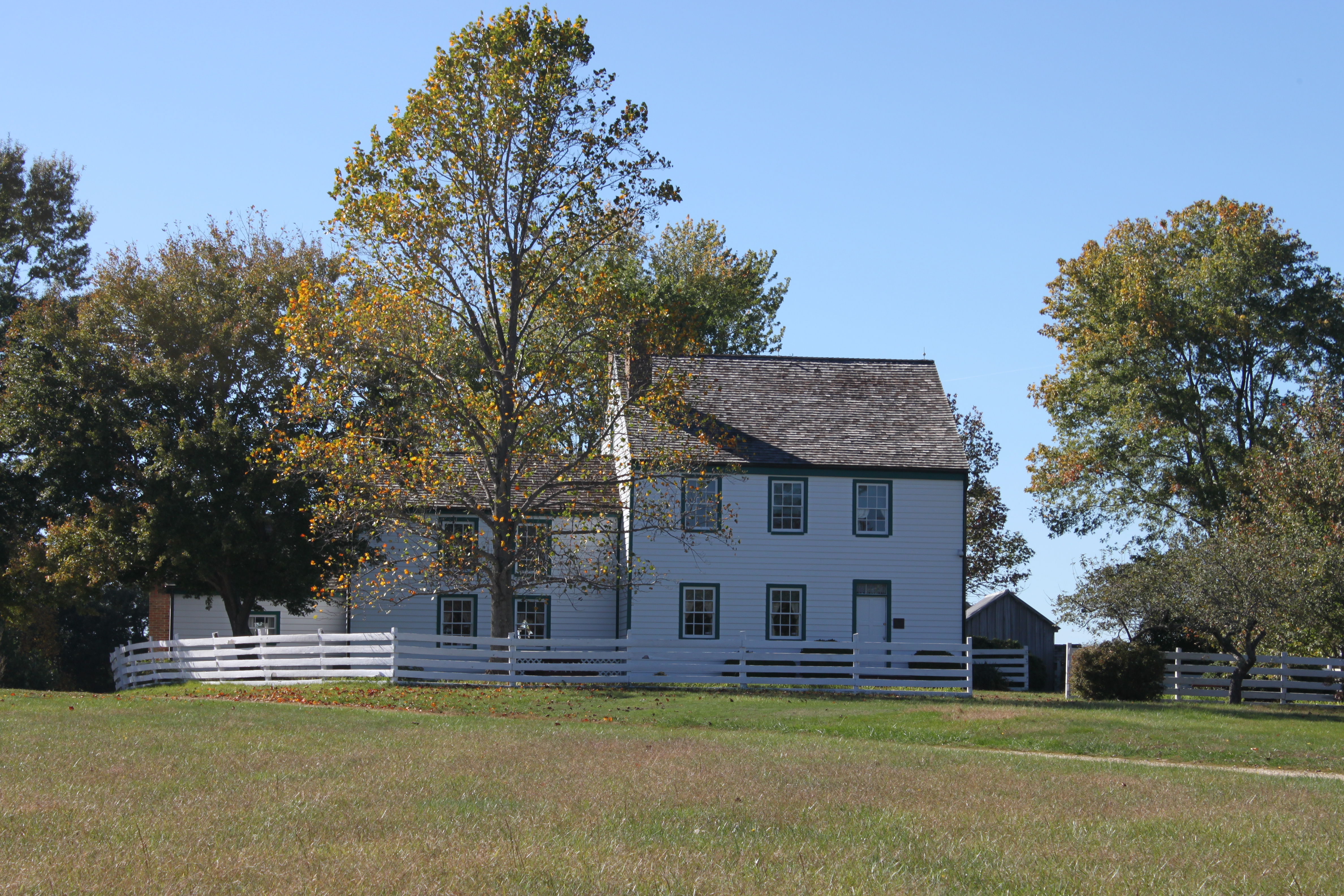 An image of the Dr. Samuel Mudd House. Also known as St. Catharine. It is where Dr. Samuel A. Mudd treated the injured leg of John Wilkes Booth in 1865.